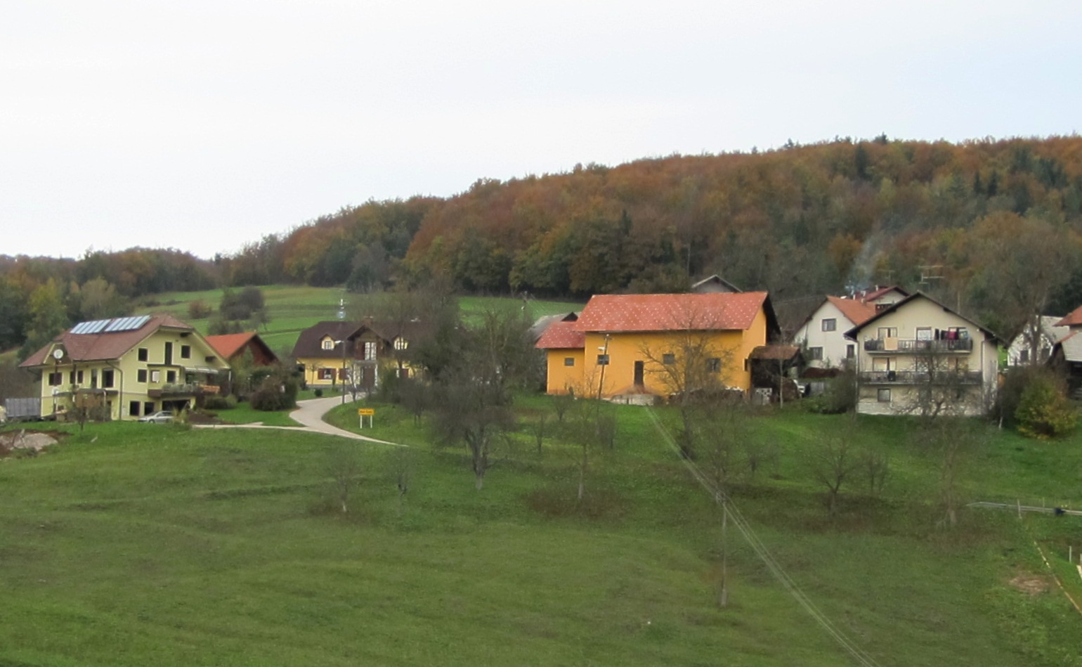 The village of Mali Konec, Municipality of Grosuplje, Slovenia.